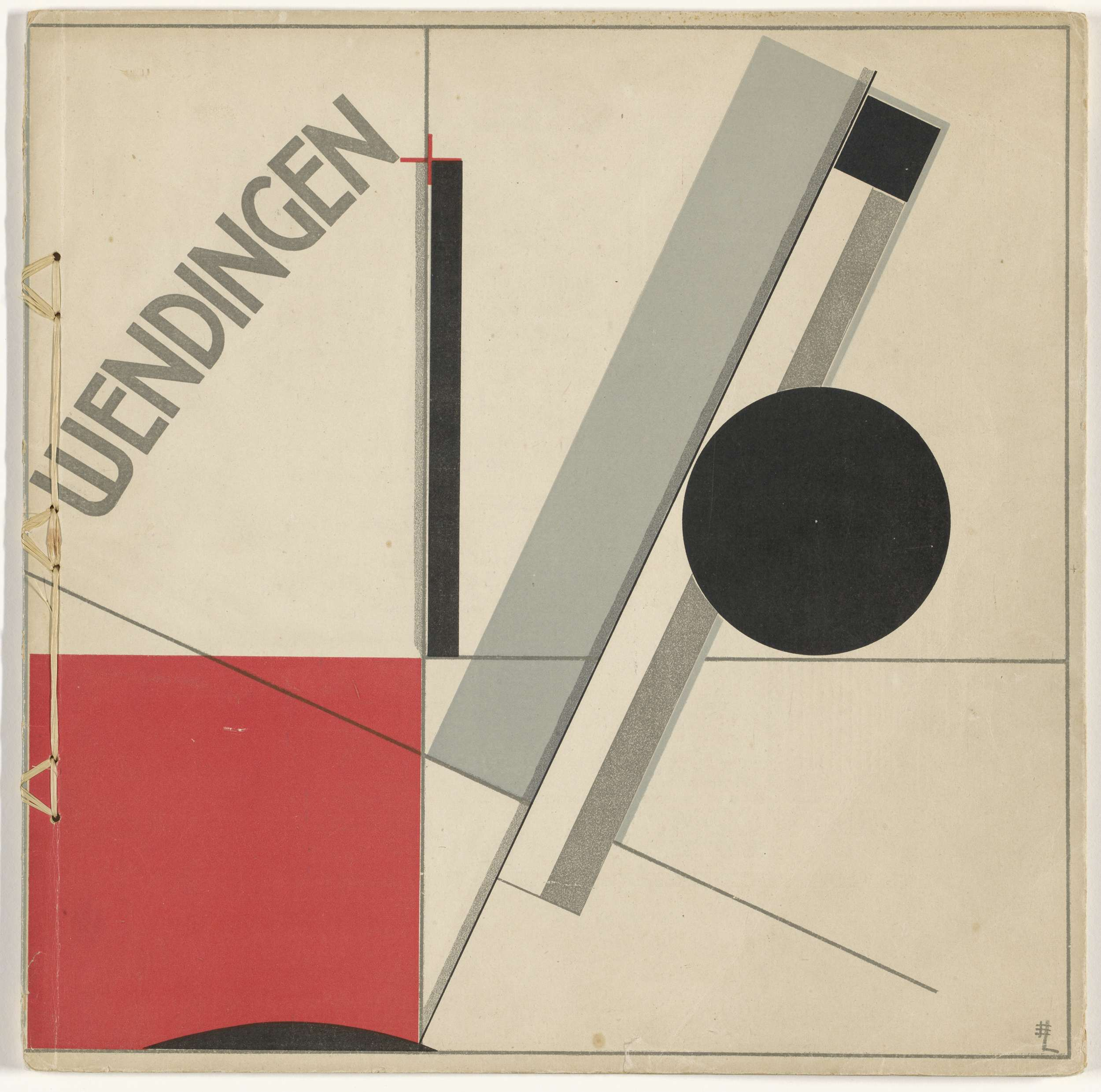 Dutch art magazine Wendingen,November 1921 (11)